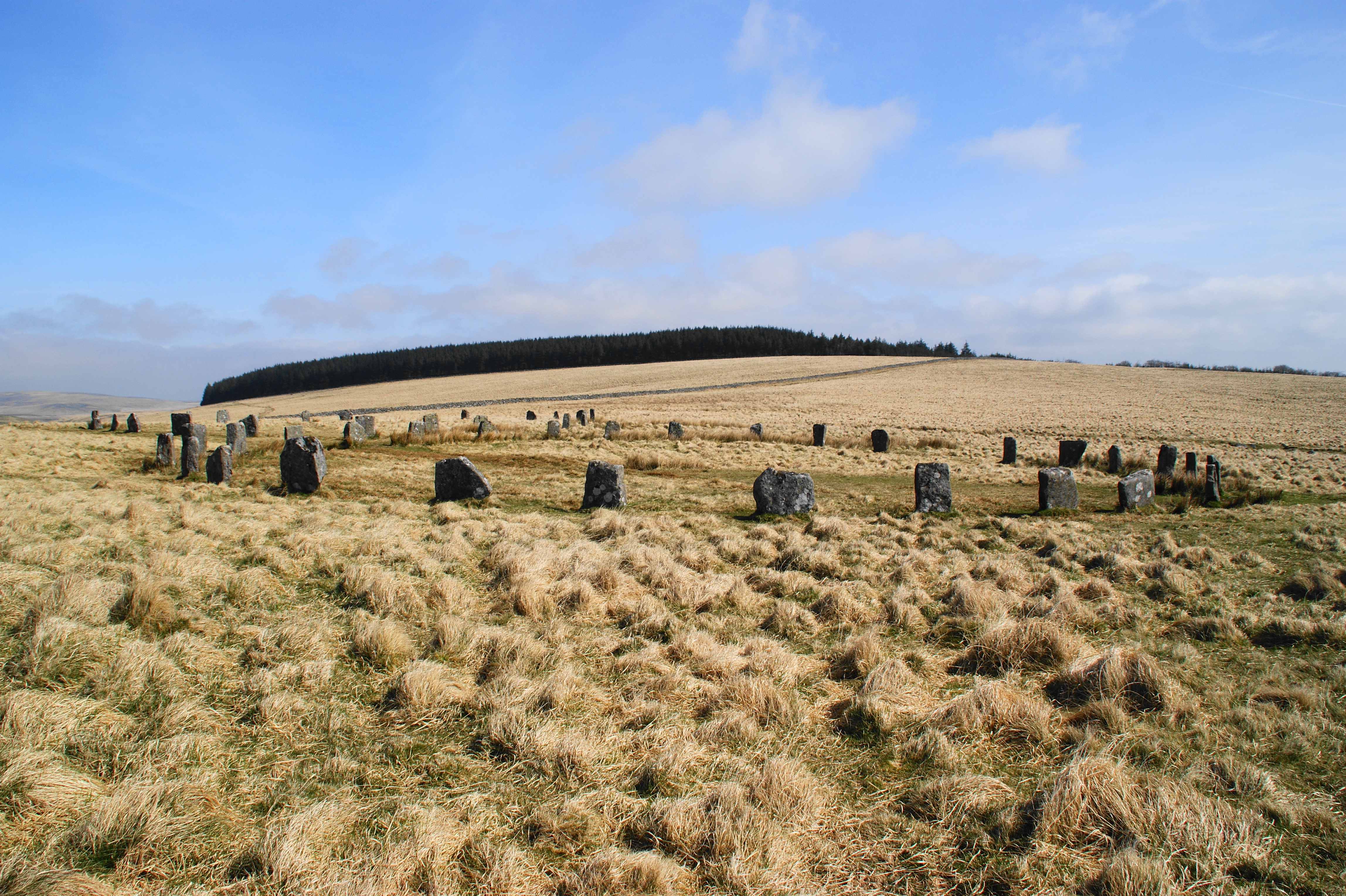 Grey Wethers is a pair of stone circleDartmoor. A view of both circles from the south.